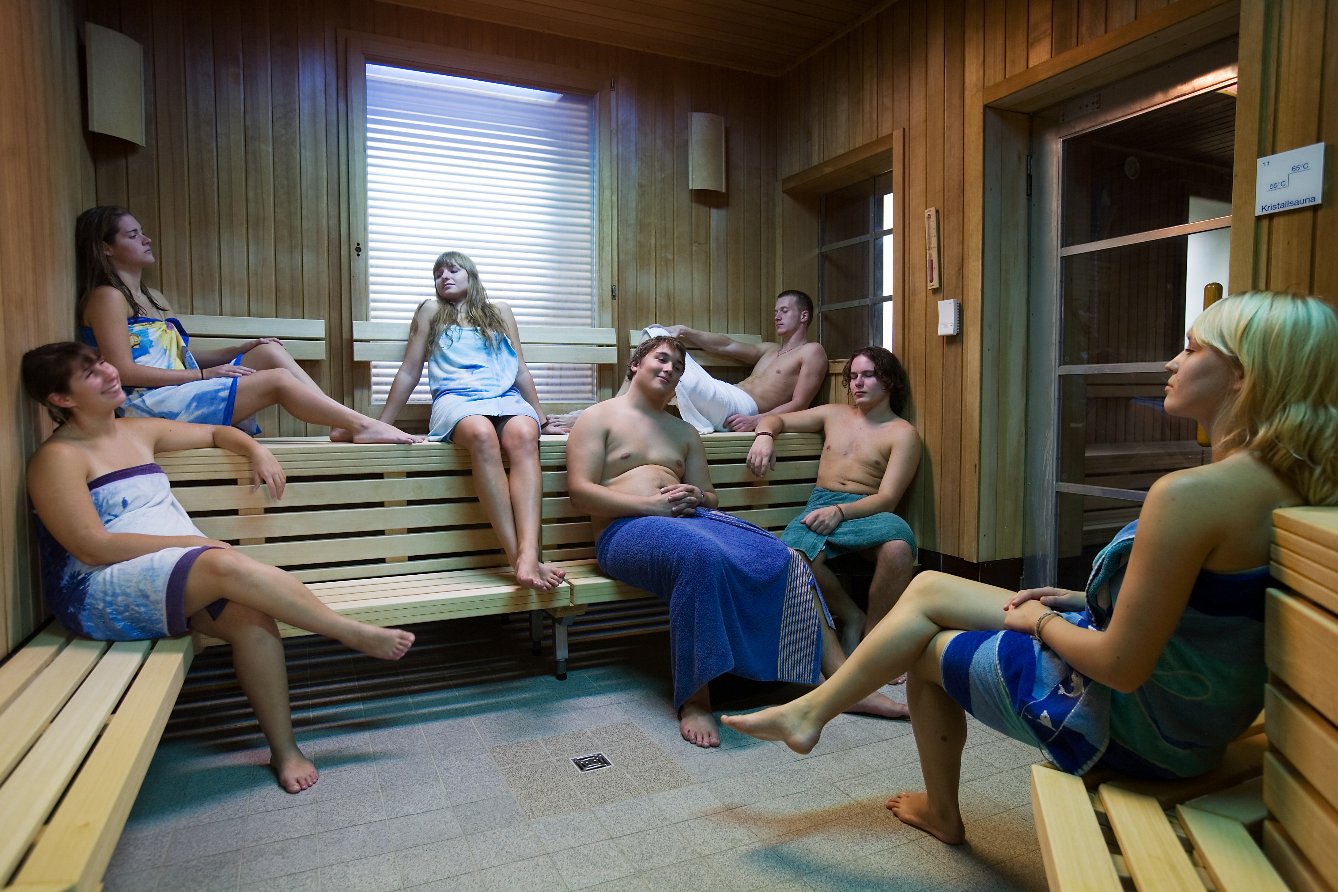 A Sauna in Munich